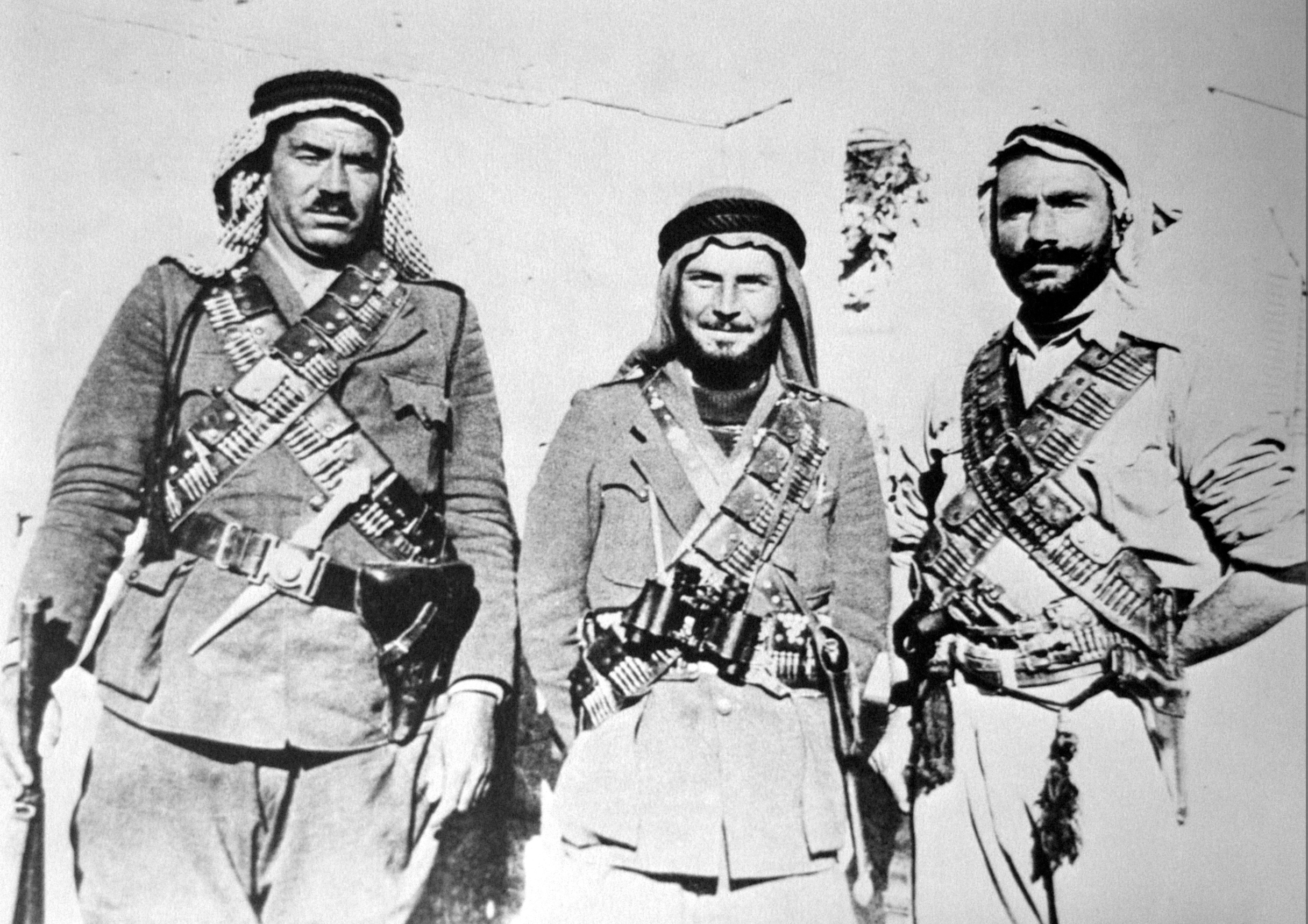 Abd al-Qadir al-Husseini (center) with aides, 1936.